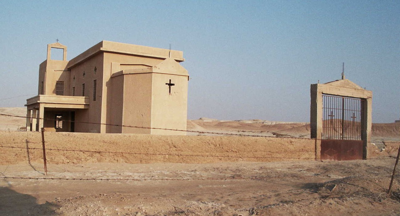 Dir Al Habash, Ethiopian Church, Kasser Al Yahud